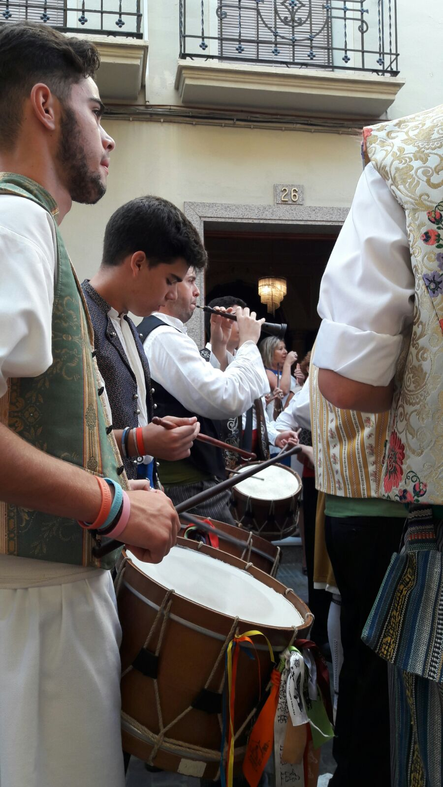 Mare de Déu de la Salut. La Mare de Déu de la Salut Festival is celebrated in September 8, in Alegemesi, Spain and commemorates the legendary discovery in 1247 of a statue depicting the Madonna and Child.